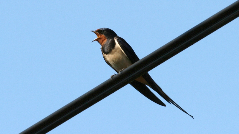 Barn Swallow (Hirundo rustica)